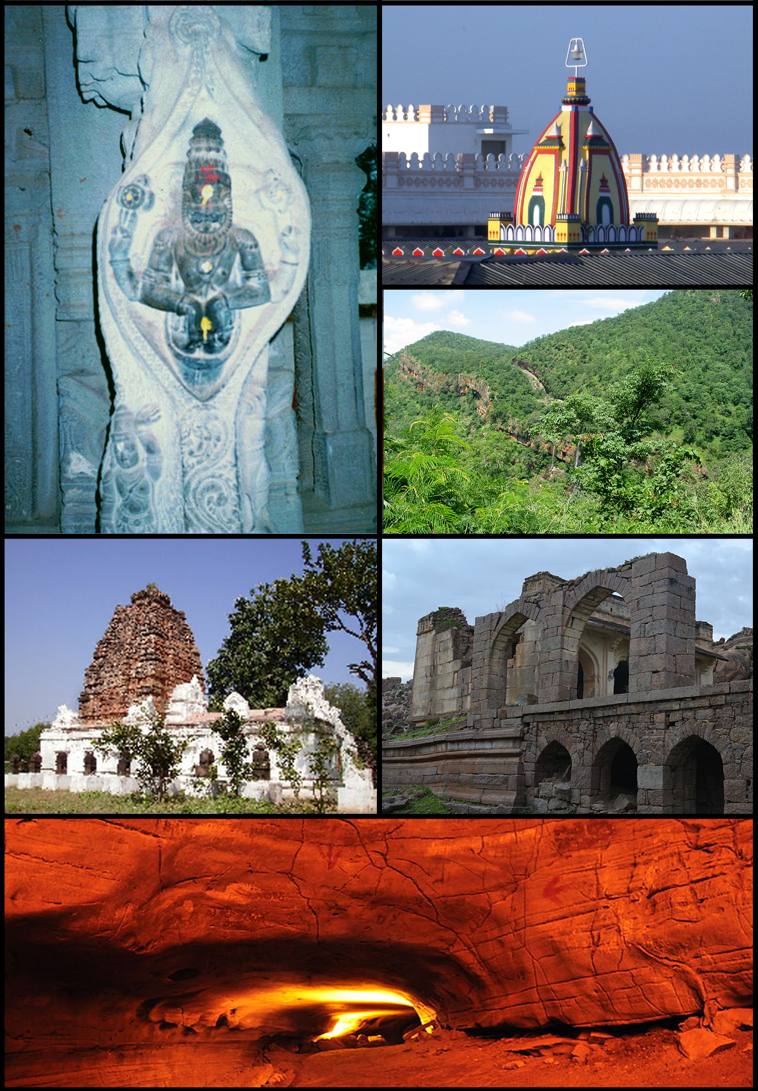 Montage of Kurnool District with Images from wikimedia commons